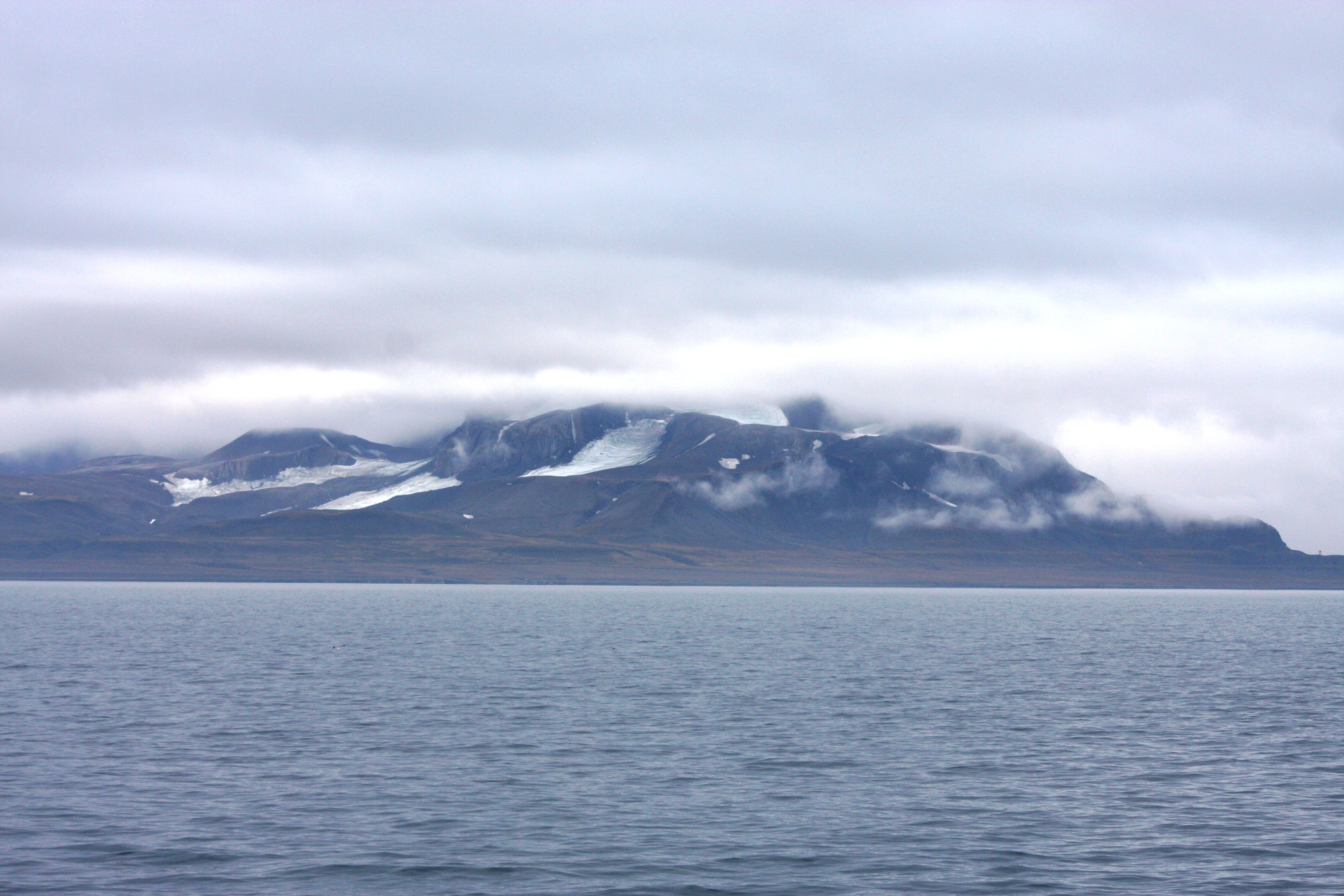 Vardeborg mountain in the Festningen geotope area, Isfjorden, Spitsbergen